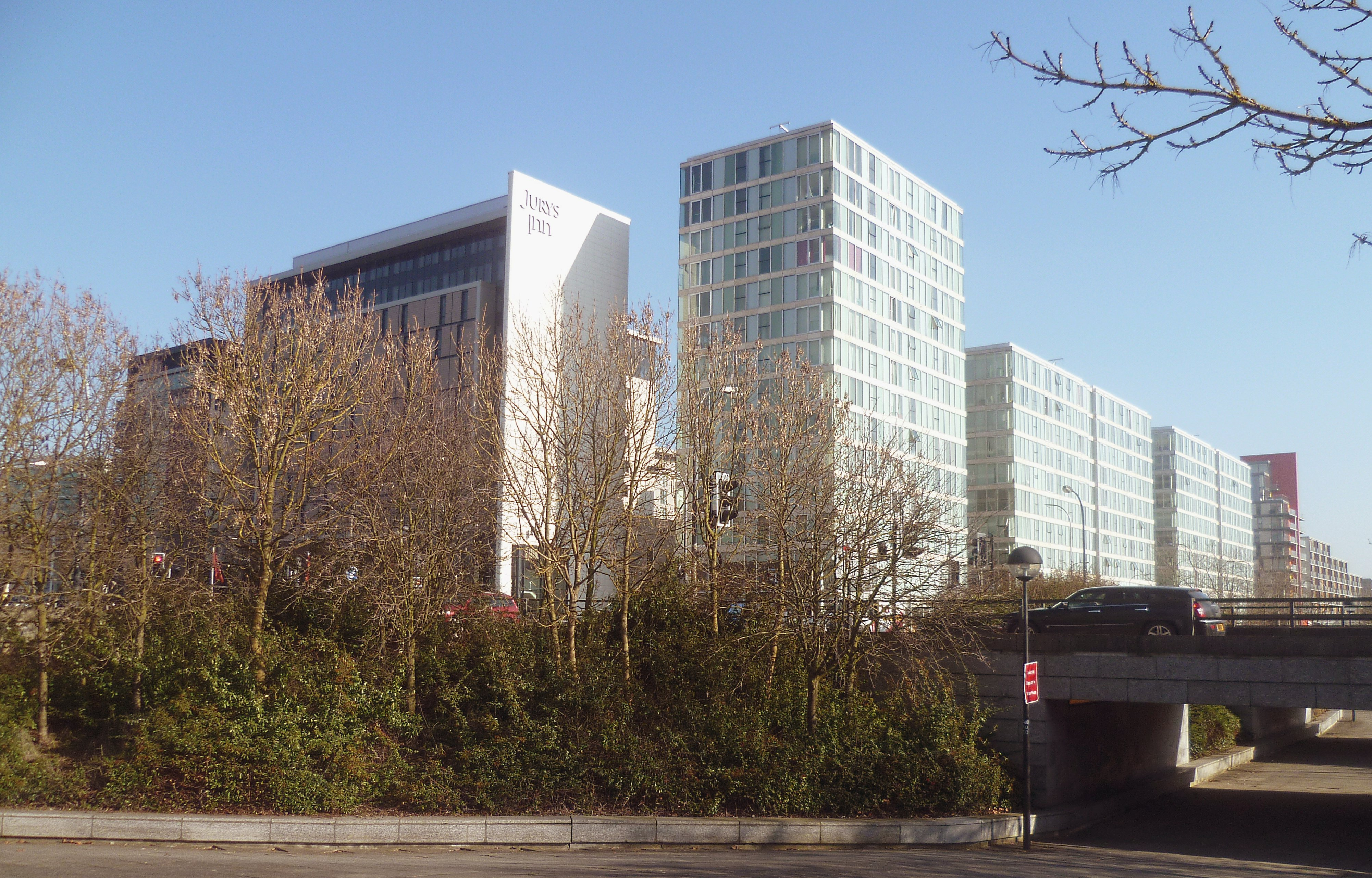 Manhatten House, Jurys Inn and other towers of The:Hub:MK in Central Milton Keynes.